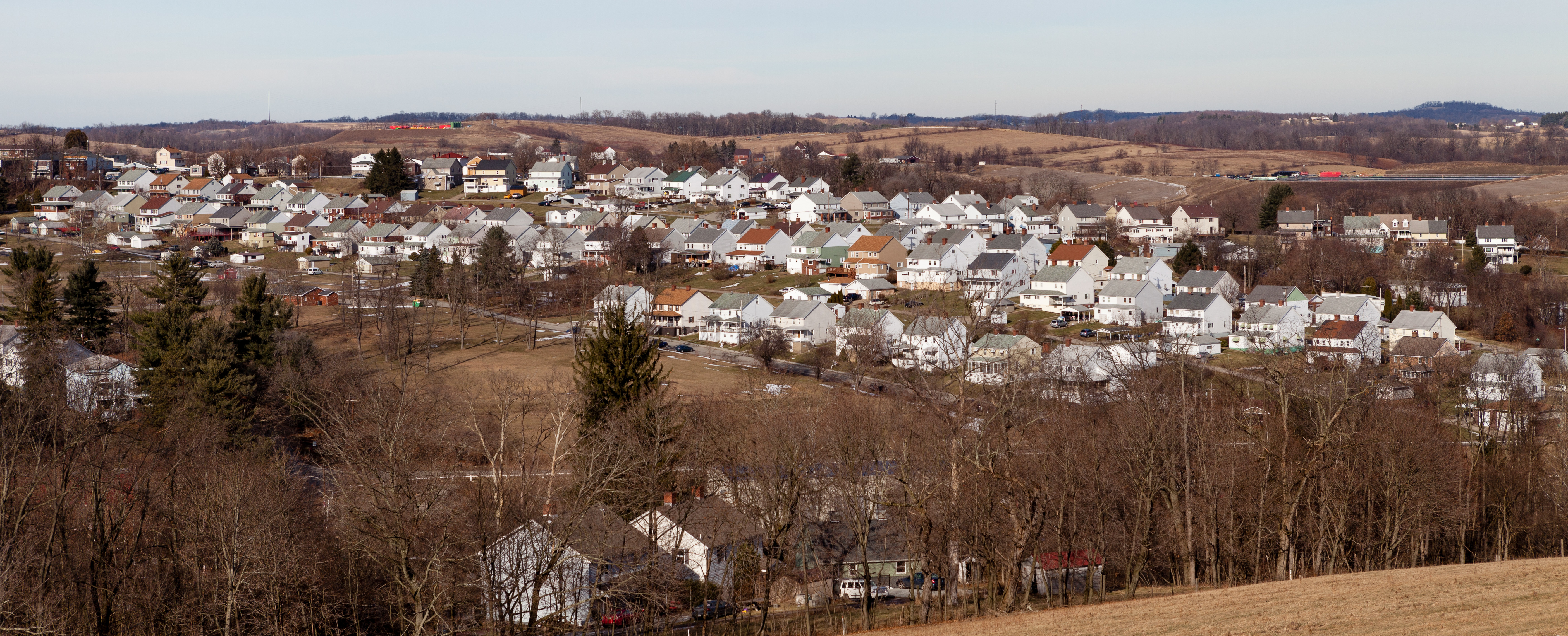 Cokeburg, Pennsylvania seen from a hill to the south along Fava Farm Rd